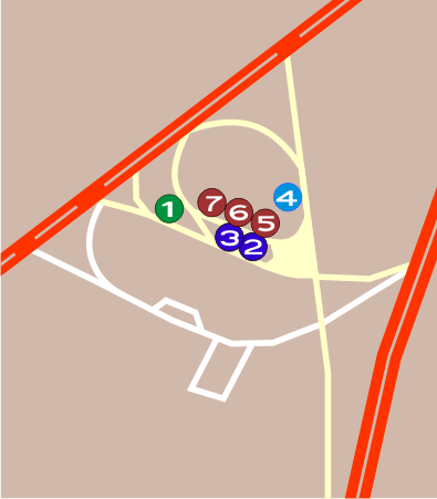 Map of the bus stops in the Malakhi Junction (Qastina), Israel.